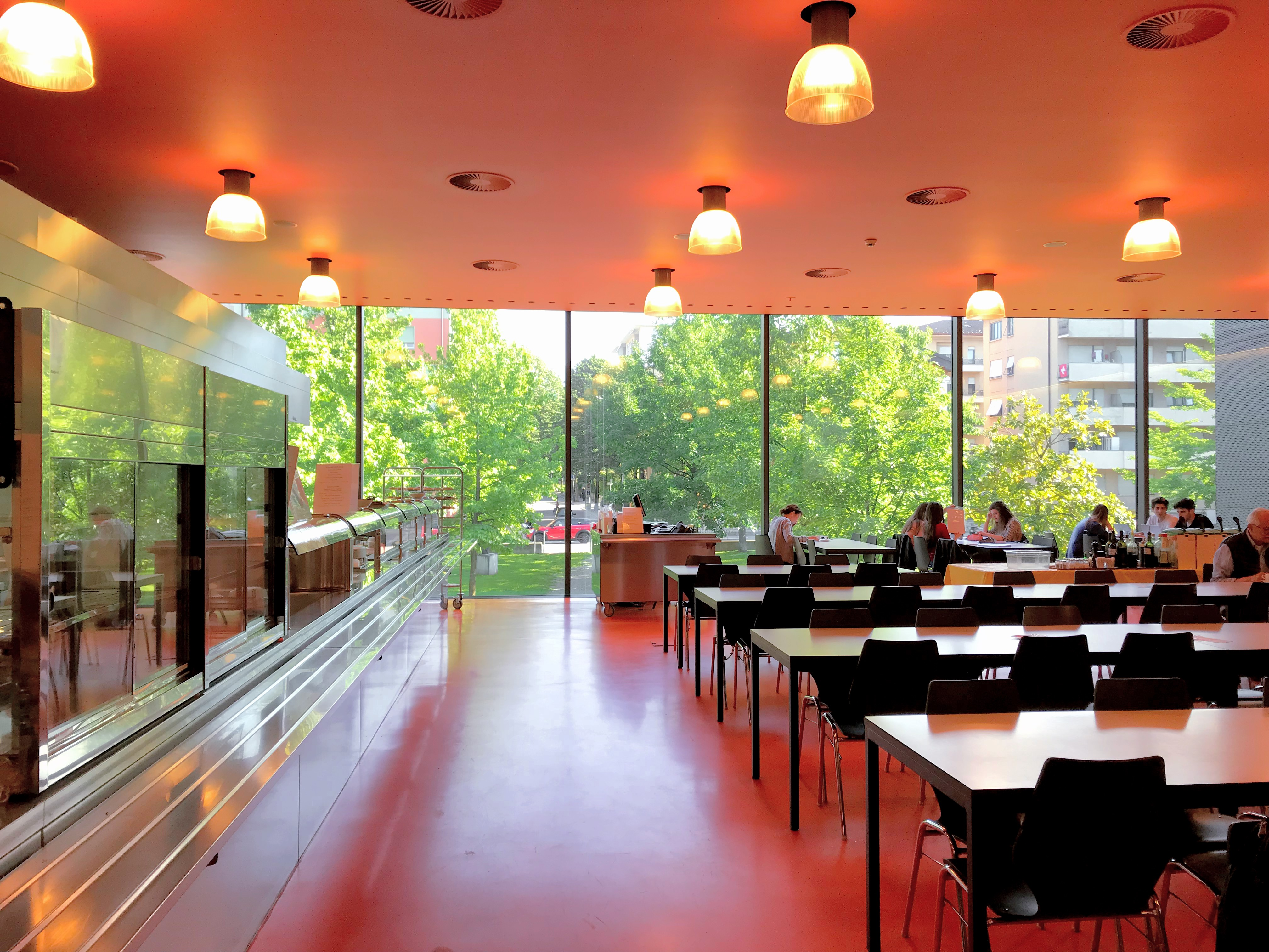 The Cafetaria